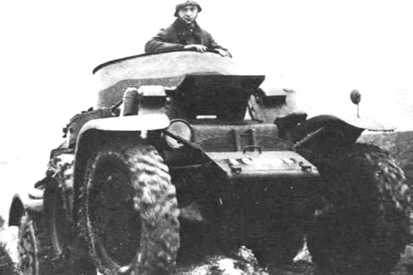 Gendron-SOMUA AMR 39 Second Prototype with a ballast to simulate the weight of the missing turret undergoing trials